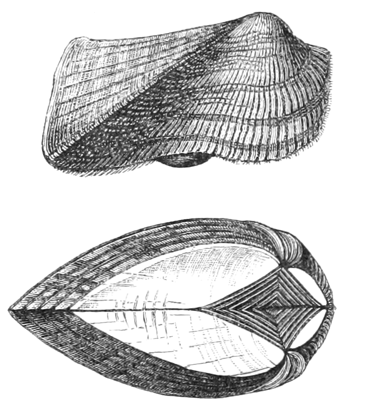 Illustration from Natural History: Mollusca (1854), p. 254 - "NOAH'S ARK" (Arca tetragona).